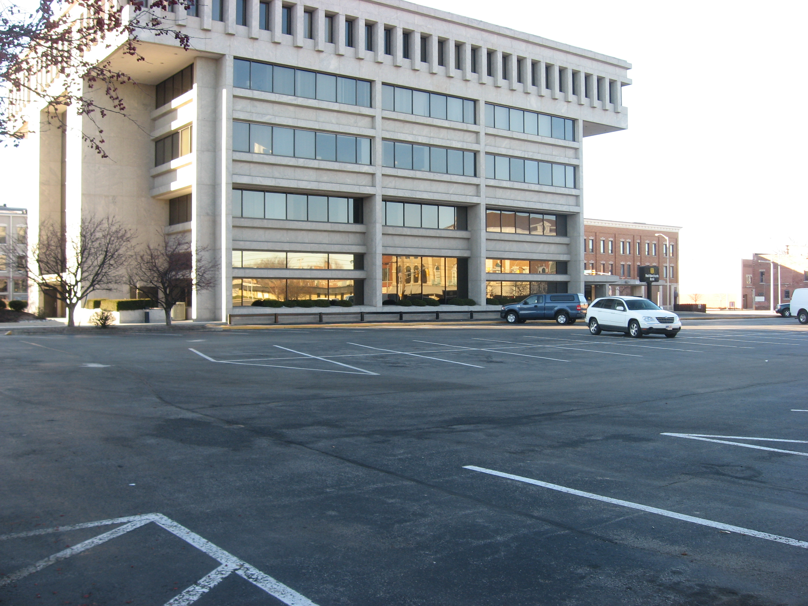 A parking lot on the northwestern corner of the junction of Jackson (State Road 32) and Jefferson Streets in downtown Muncie, Indiana, United States. The building in the background is a bank. The parking lot occupies the site of Muncie's old city hall, which was built in 1925; it was listed on the National Register of Historic Places in 1988, and despite its destruction, it has not yet been removed from the Register.